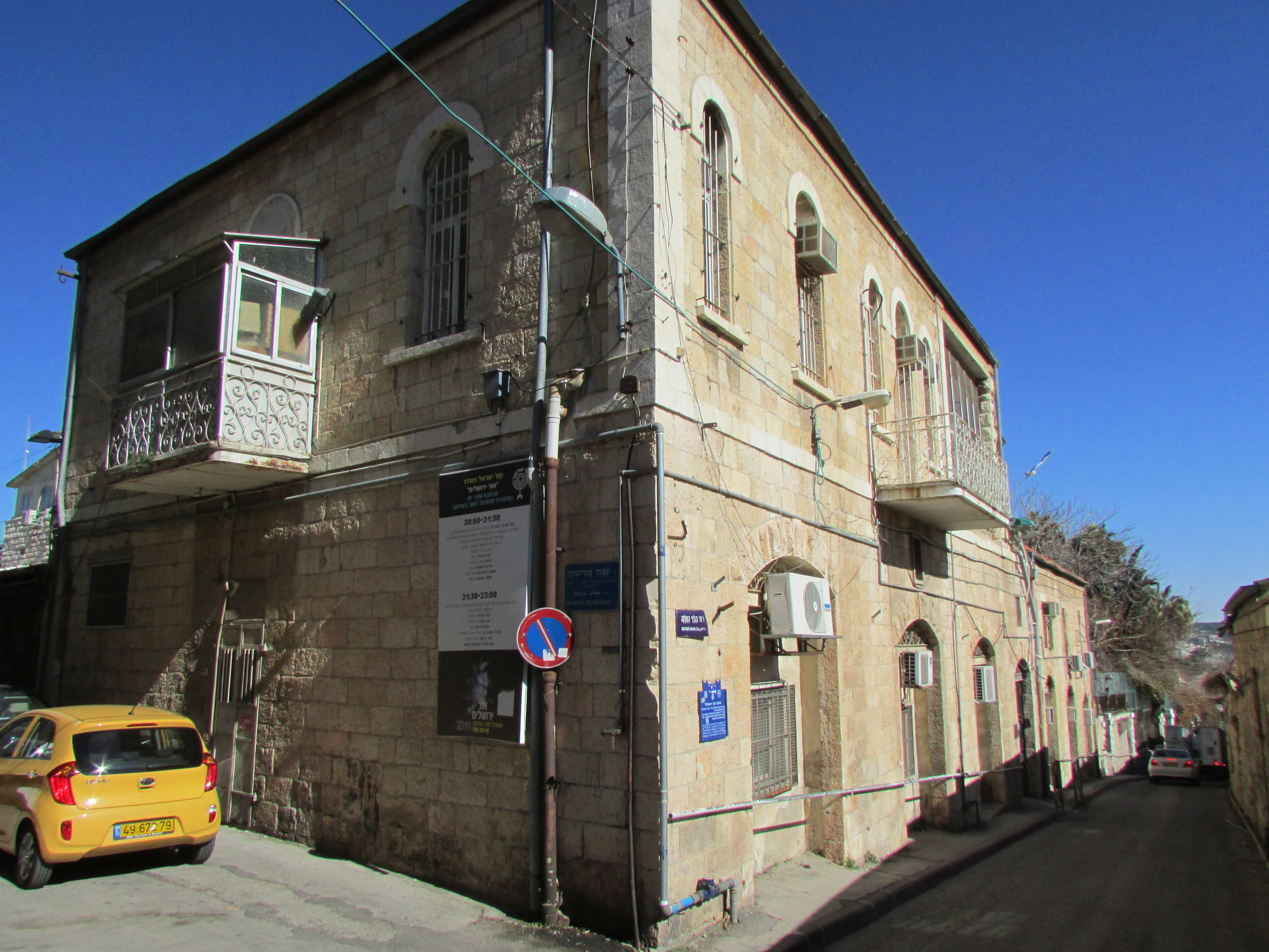 Jerusalem Calling building near the Russian Compound in Jerusalem. It is now used by the Israel Broadcasting Authority.